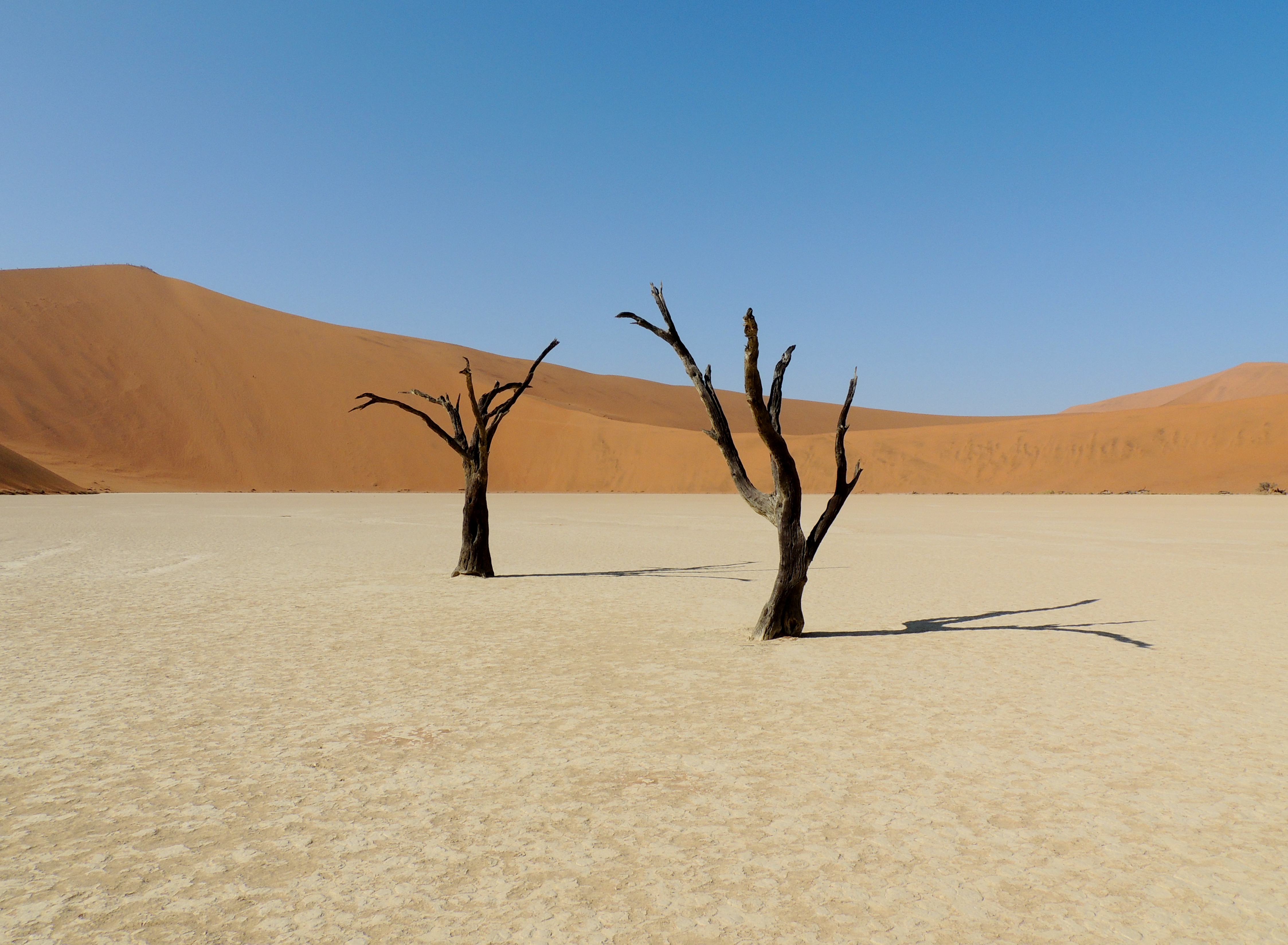 Sossusvlei 4